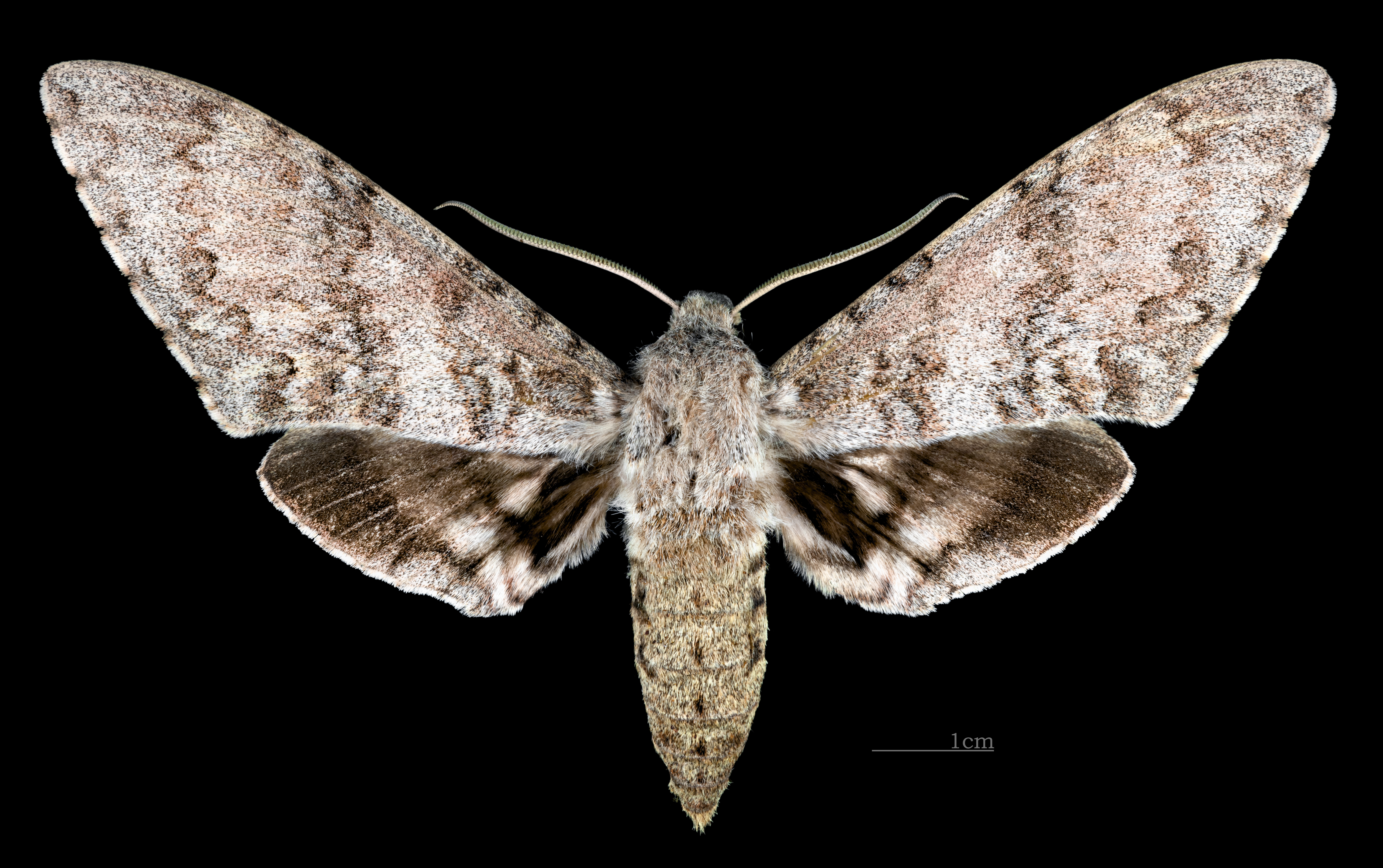 Manduca bergi - Dorsal side Collection of the Mathematician Laurent Schwartz